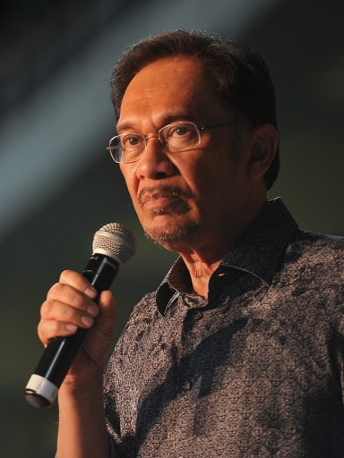 Malaysian opposition leader Anwar Ibrahim speaks during a rally in Penang on 11 May 2013